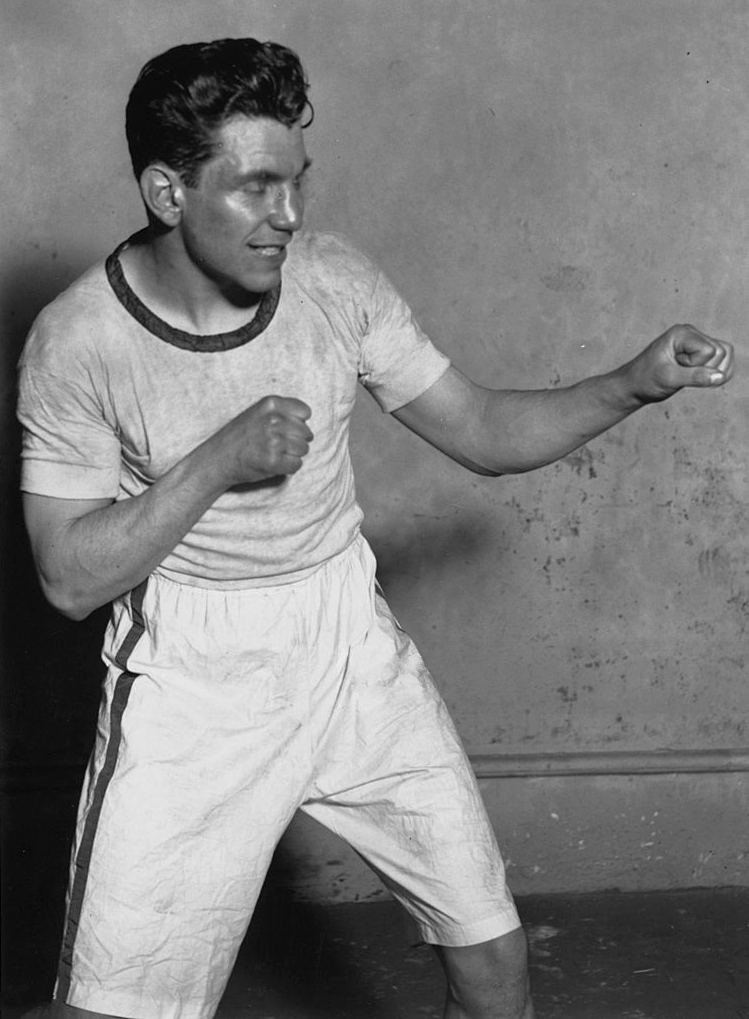 Edward Eagan, light-heavyweight Olympic boxing champion in 1920 and was a member of the four-man bobsled team that won a gold medal at the Lake Placid Olympics in 1932, at Alexandra Palace, London.